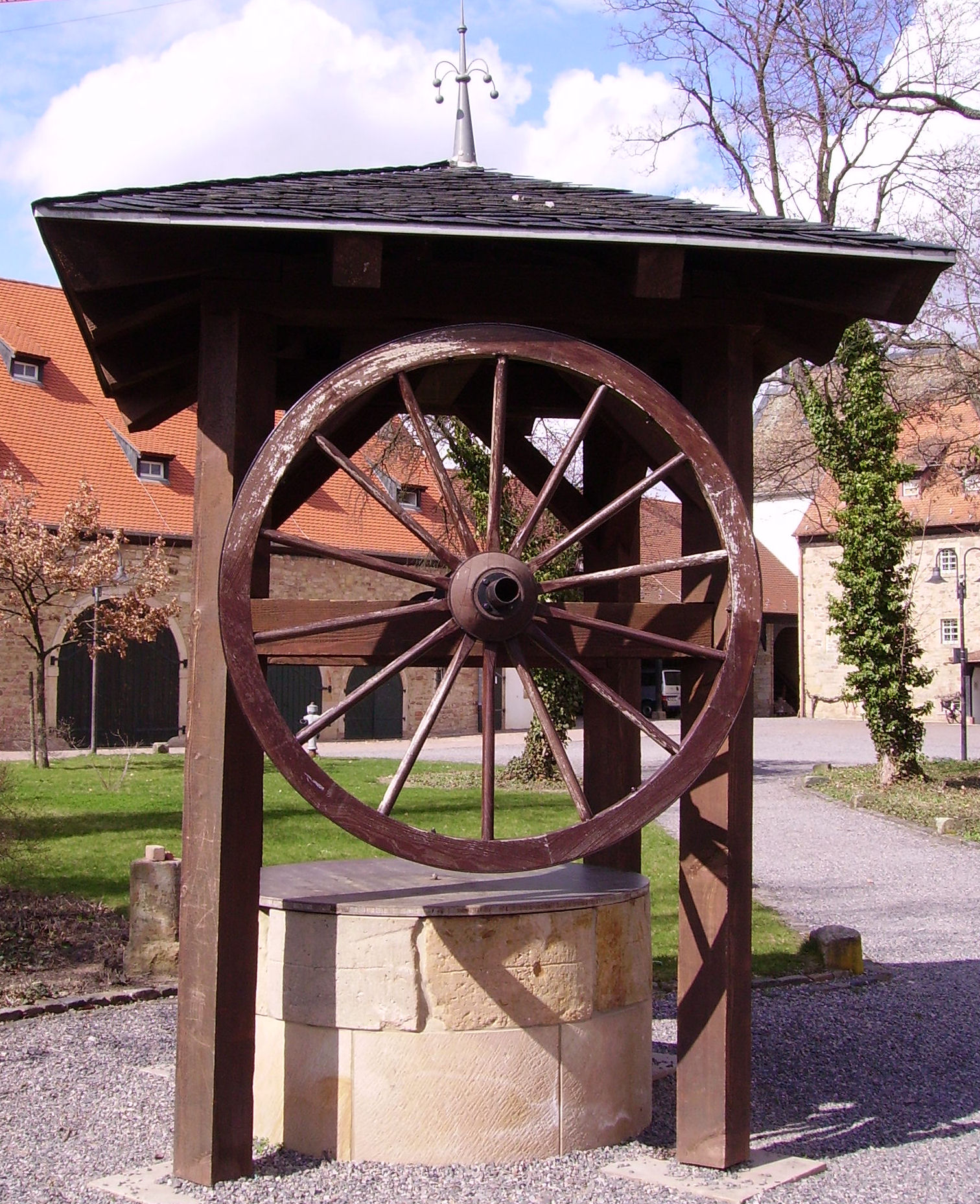 in Mußbach, part of Neustadt an der Weinstraße, Germany